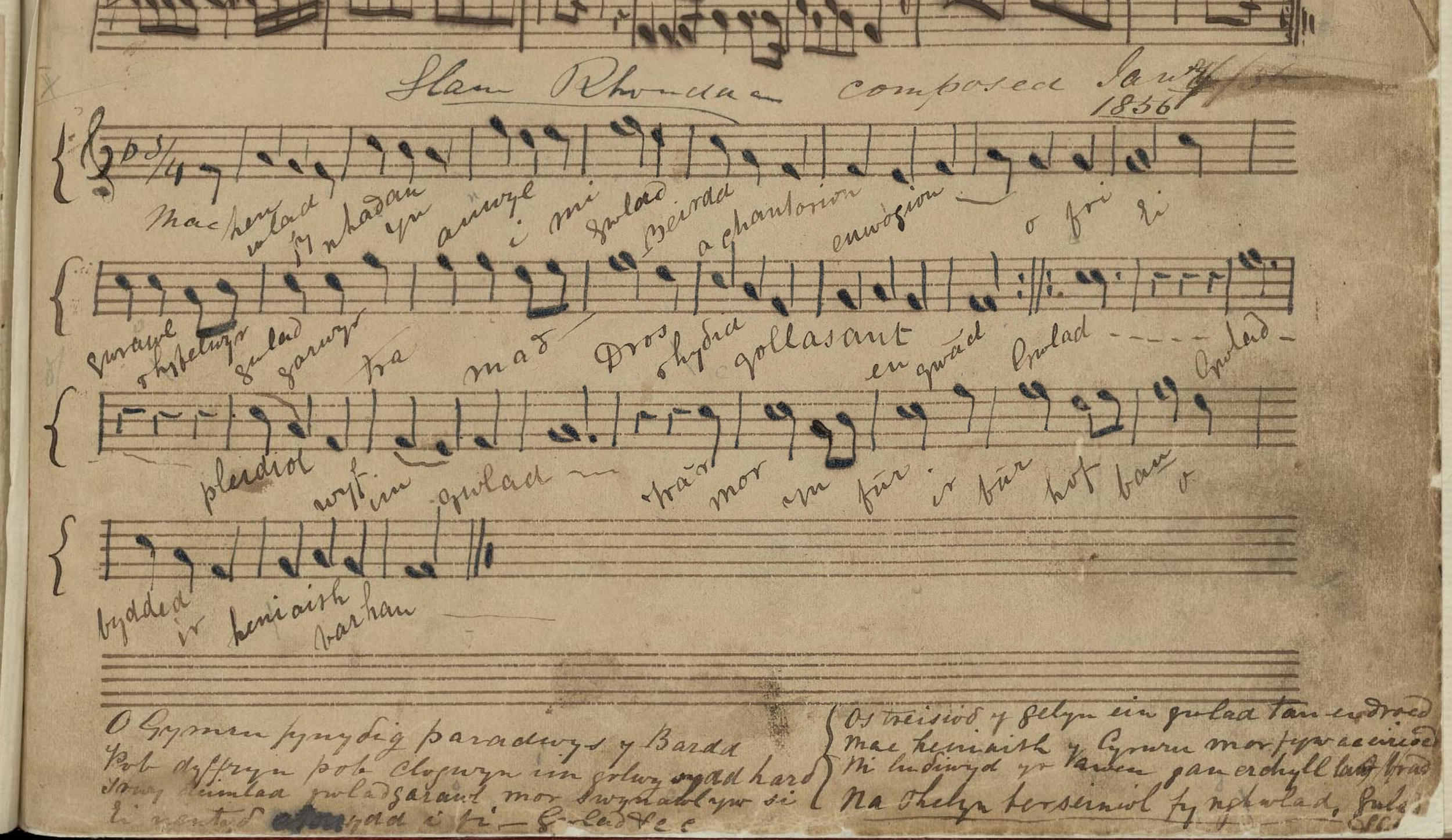 The earliest known copy of Hen Wlad Fy Nhadau, which later become the official National Anthem of Wales.